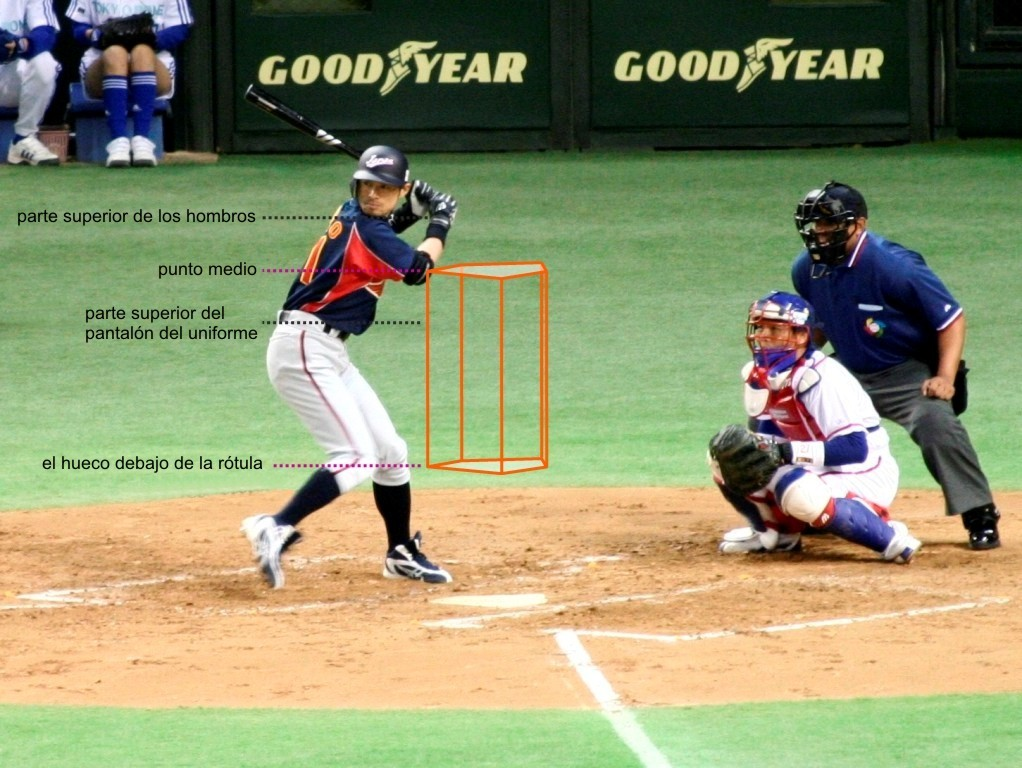 Explanation of strike zone